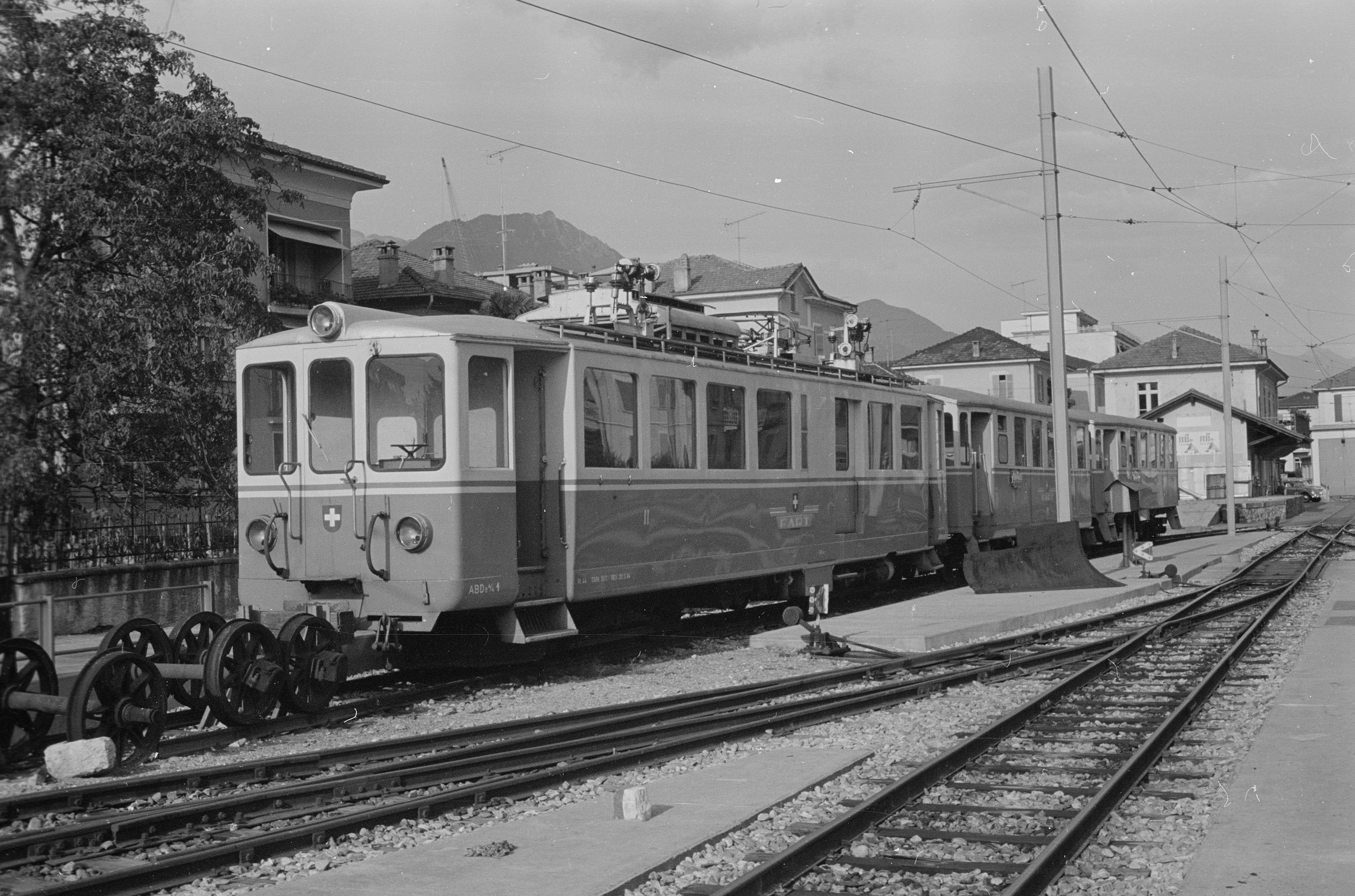 FART ABDe 4/4 1 at Locarno S. Antonio railway station.